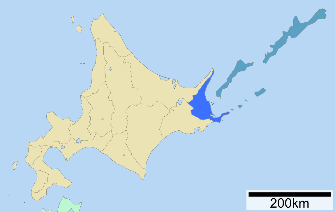 Map of Nemuro Subprefecture. Nemuro Subprefecture is blue and the claimed Southern Kuril islands (Southern Chishima) is light blue. The Southern Kuril islands are called Japan's Northern Territories.